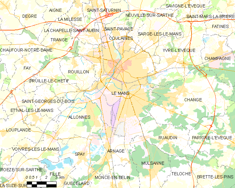 Map of French municipality